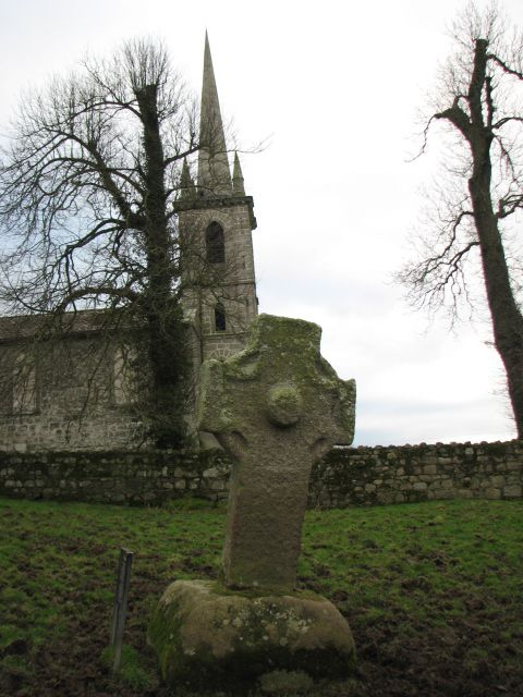 Nurney cross An ancient cross located within sight of the church in Nurney. Access is via a very narrow step and rough terrain, but worth the trouble.